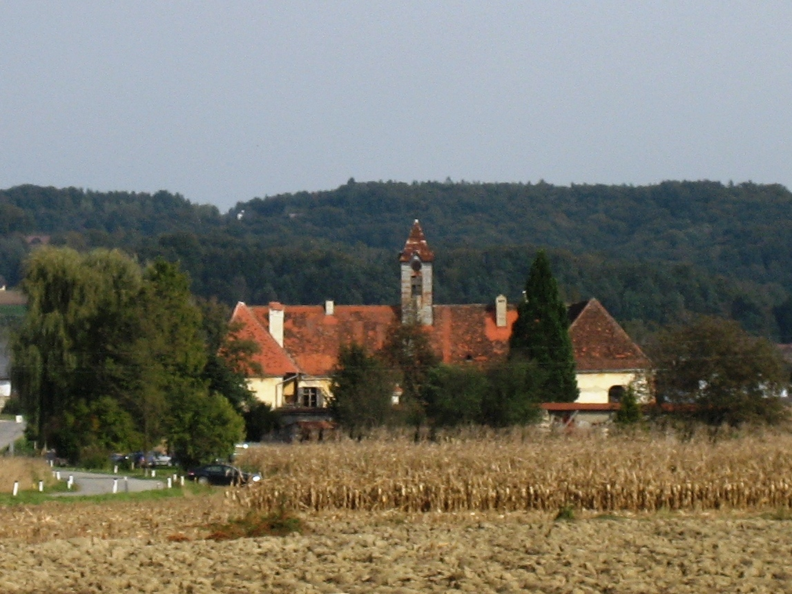 Schloss Rohr (Rohr castle) in Ragnitz, Austria